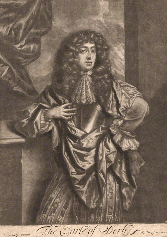 William Stanley, 9th Earl of Derby (c1655-1702)